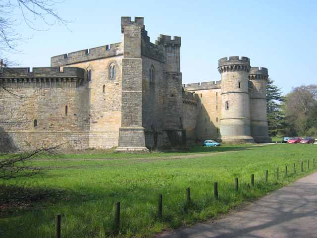 Brancepeth Castle: "Rebuilt in the 14th century on the site of a Norman castle, this Castle is privately owned. Open occasionally to the public for special events such as craft fairs and Shakespearean performances. The upkeep of such a massive building must be a major financial headache for the owner."